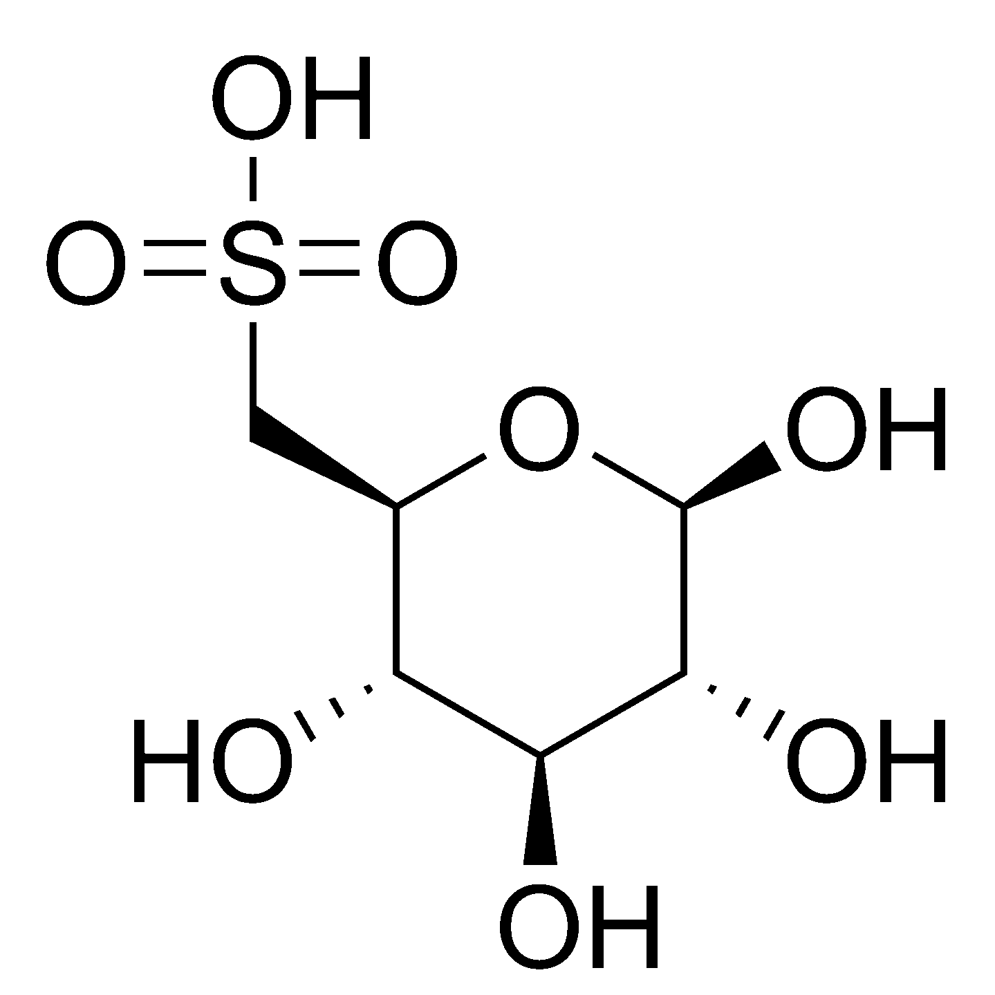 Chemical structure of sulfoquinovose